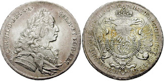 Germany, Bavaria. Karl Albert, as Emperor Charles VII. 1742-1745. AR Thaler (29.10 gm). Dated 1743. Cuirassed bust right Crowned coat-of-arms over crowned imperial eagle. Leaved edge. Davenport 1947; KM 198.